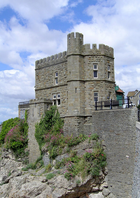 Clevedon Pier toll house, designed by Hans Price. Original photo by Christina Burford (details).